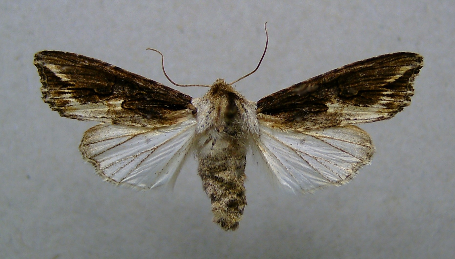 Egira conspicillaris, Kamp-Bornhofen, Middle Rhine, Germany